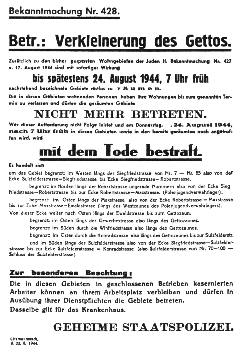 Notice of the Secret State Police (Gestapo) from 22.08.1944 regarding the reduction of the Ghetto Litzmannstadt (Lodz)